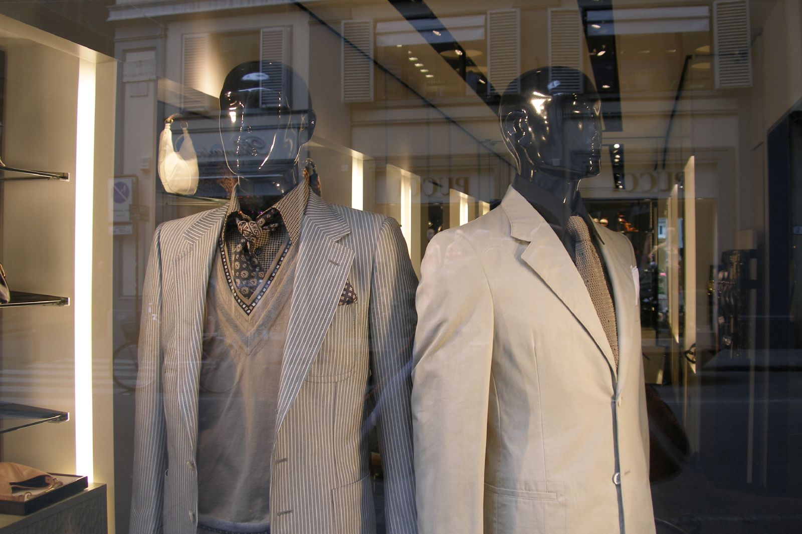 Yves Saint Laurent 2006 men's wear at a shop in Florence, Italy